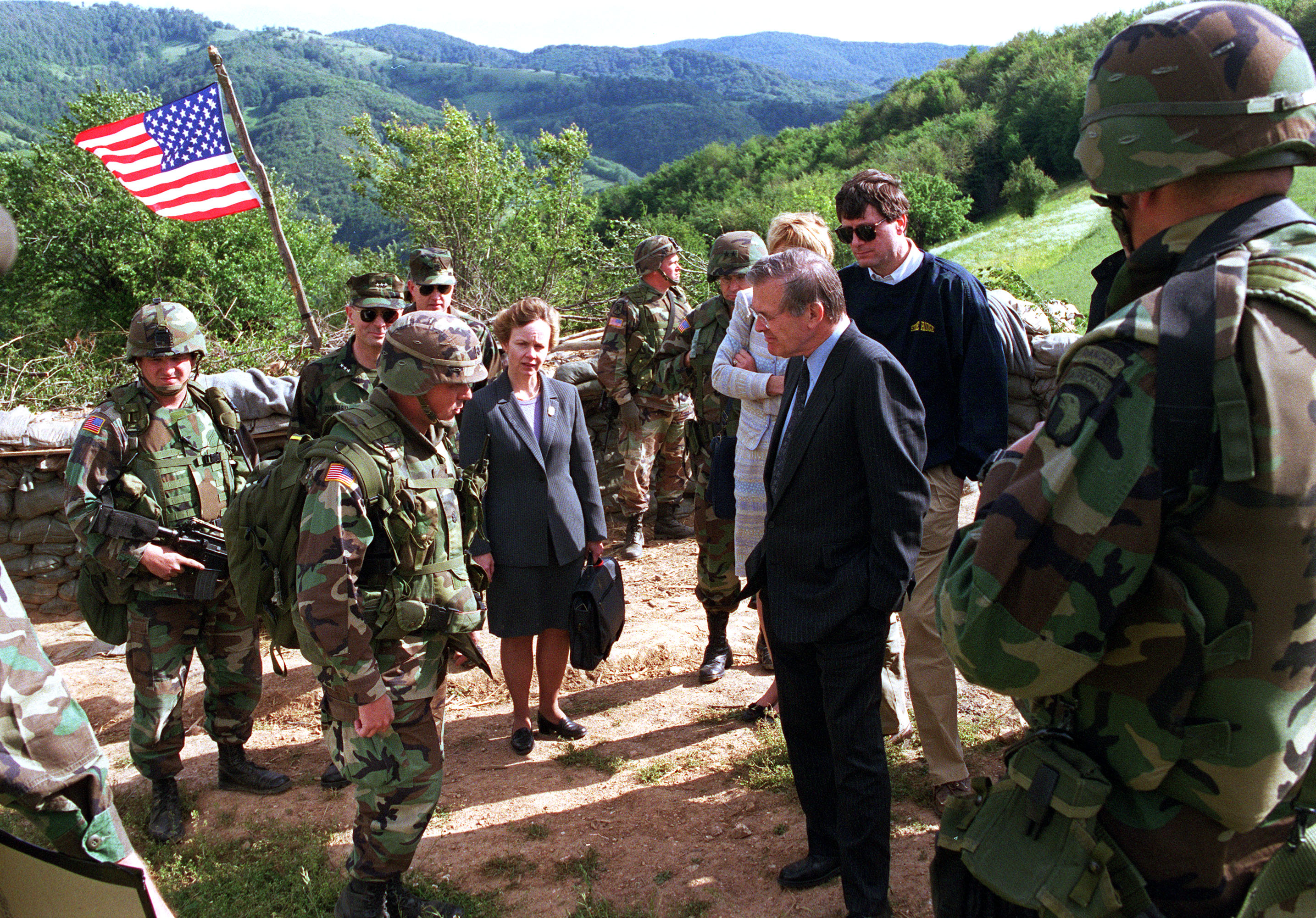 A U.S. Army officer briefs Secretary of Defense Donald H. Rumsfeld as he visits a U.S. observation post in Mijak, Kosovo, Republic of Serbia, on June 5, 2001. The post, because of its close proximity to the Macedonian border, has become increasingly important in recent weeks as fighting between Macedonian government forces and Albanian rebel militias has intensified. The U.S. troops in Mijak regularly patrol the area attempting to prevent shipments of arms from crossing the border into Macedonia. The 31-man U.S. Army unit currently occupying the hilltop is from the 2nd Battalion, 502nd Infantry, 101st Airborne (Air Assault) Division. Rumsfeld is visiting Kosovo as part of a seven-day, seven-nation, European tour.